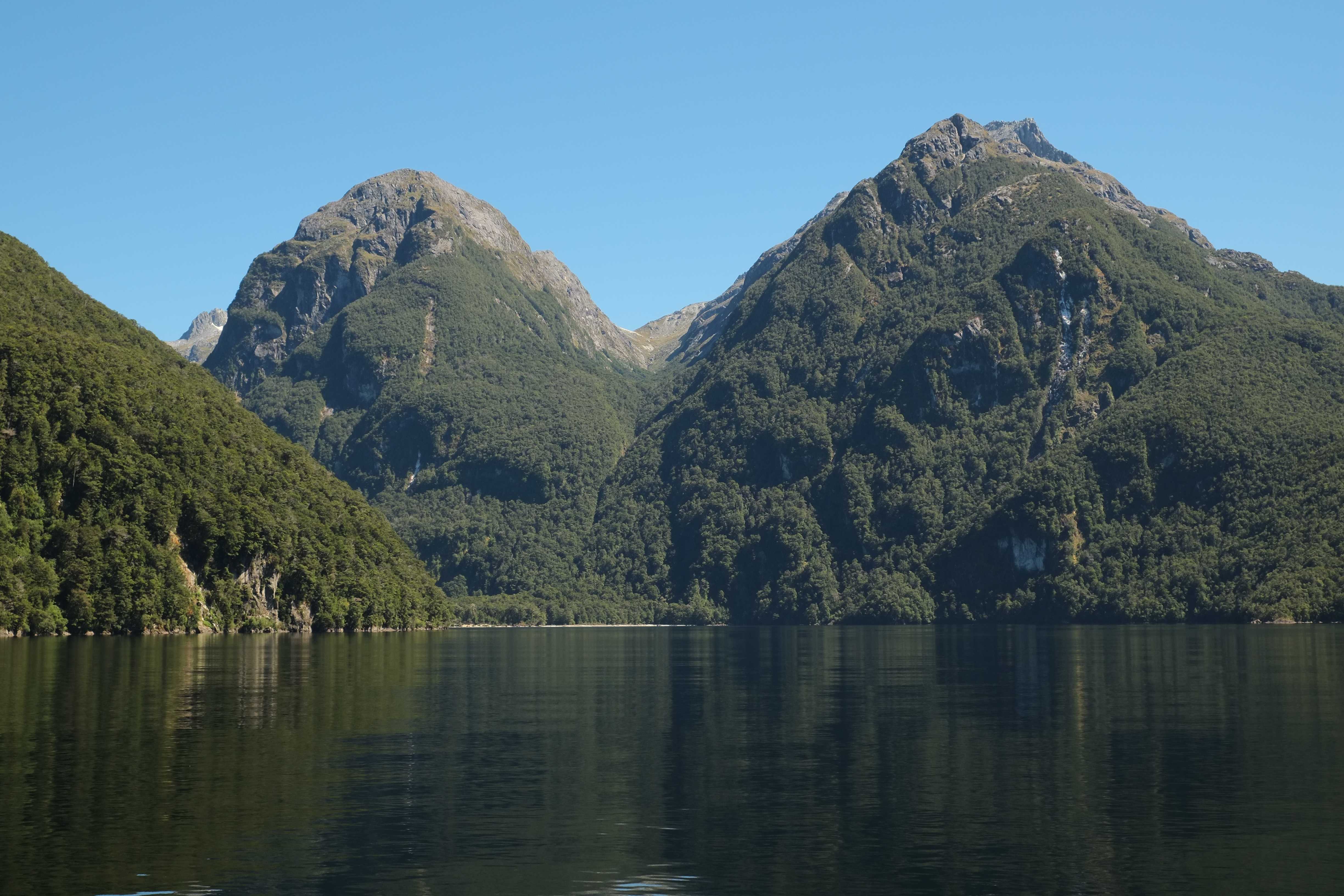 View across North Arm of Lake Manapouri to 'St Pauls Dome'